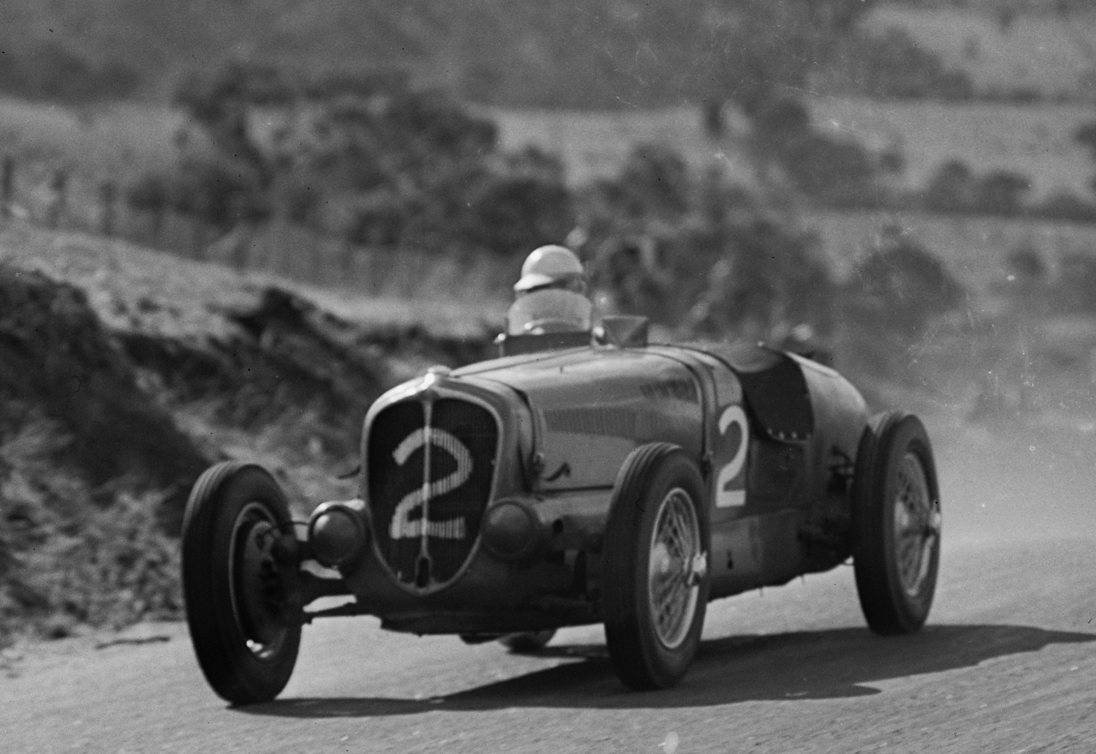 Delahaye 135 racing car driven by John Crouch, Grand Prix, Bathurst, October 1946, State Library of New South Wales ON 388/Box 011/Item 072